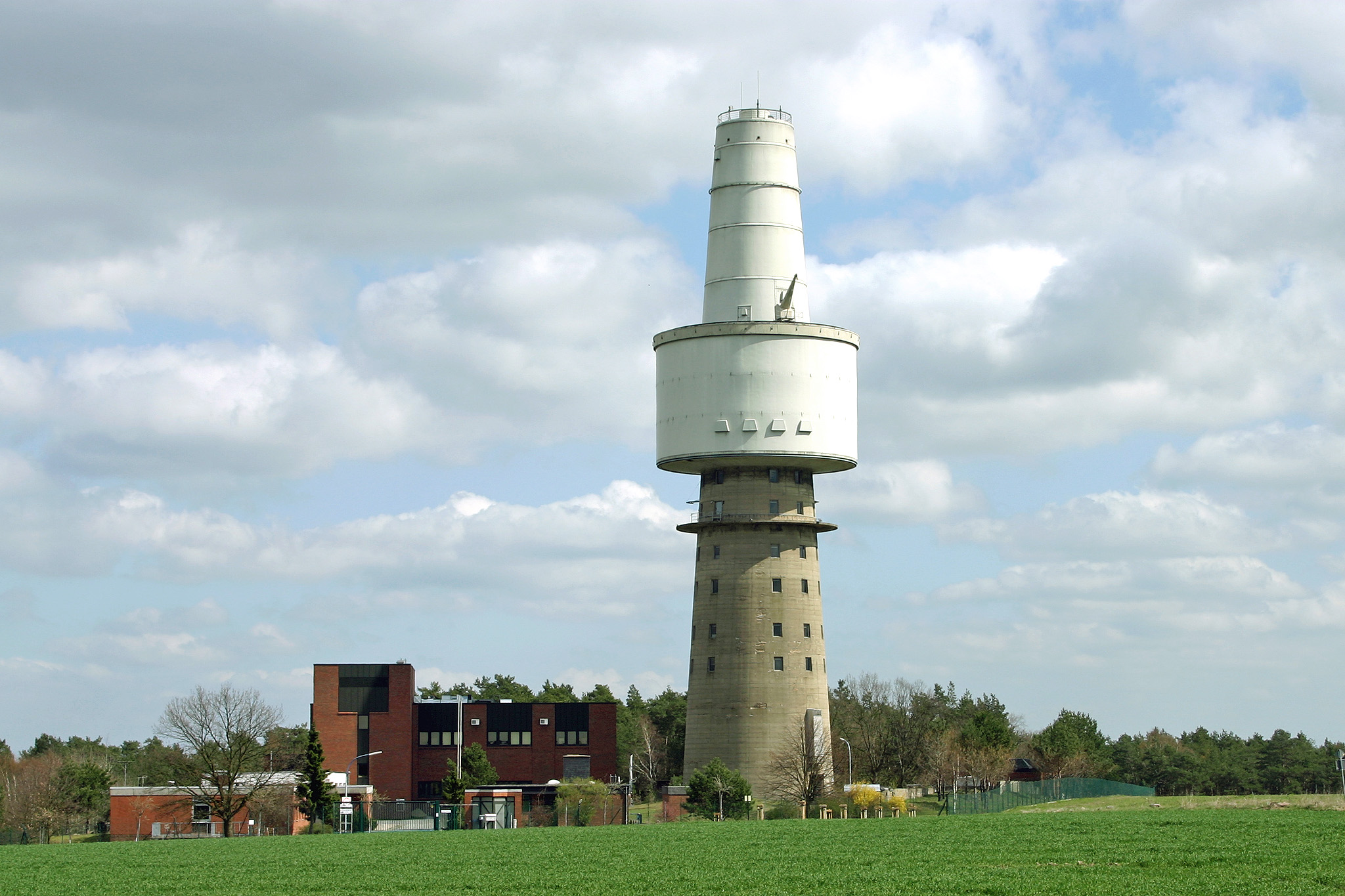 Signals intelligence tower with a horizontal extension for the Senior Guardian project near the village Thurau in the district Luechow-Dannenberg in Lower Saxony, Germany.